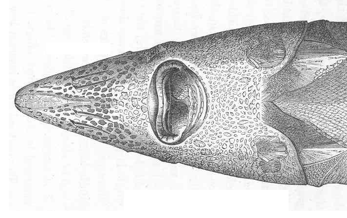 Head of Acipenser sturio, Seen from Below (cutted and rotated) Subject: Acipenser Tag: Fish